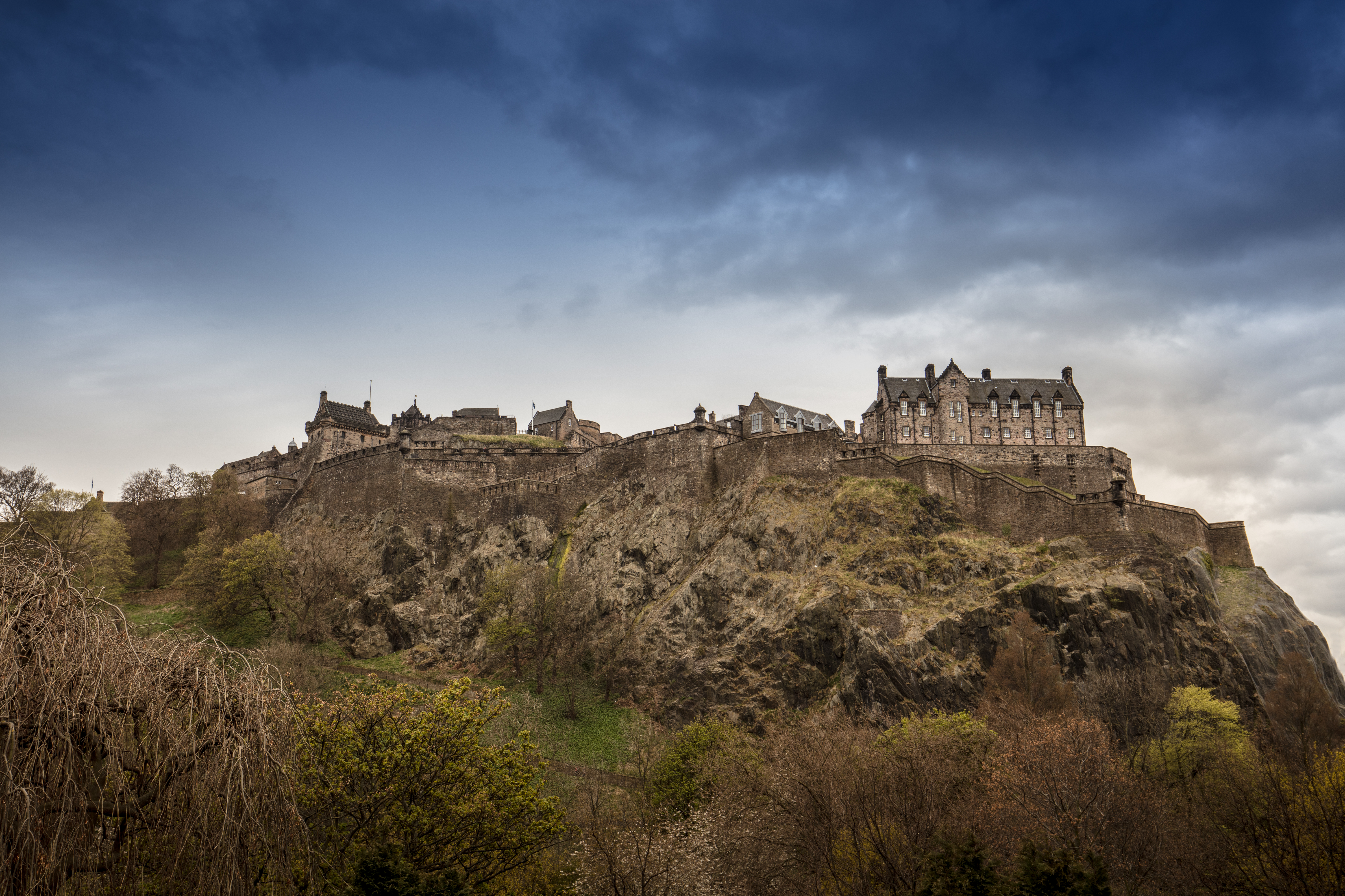 Here is a photograph taken from Edinburgh Castle. Located in Edinburgh, Scotland, UK.